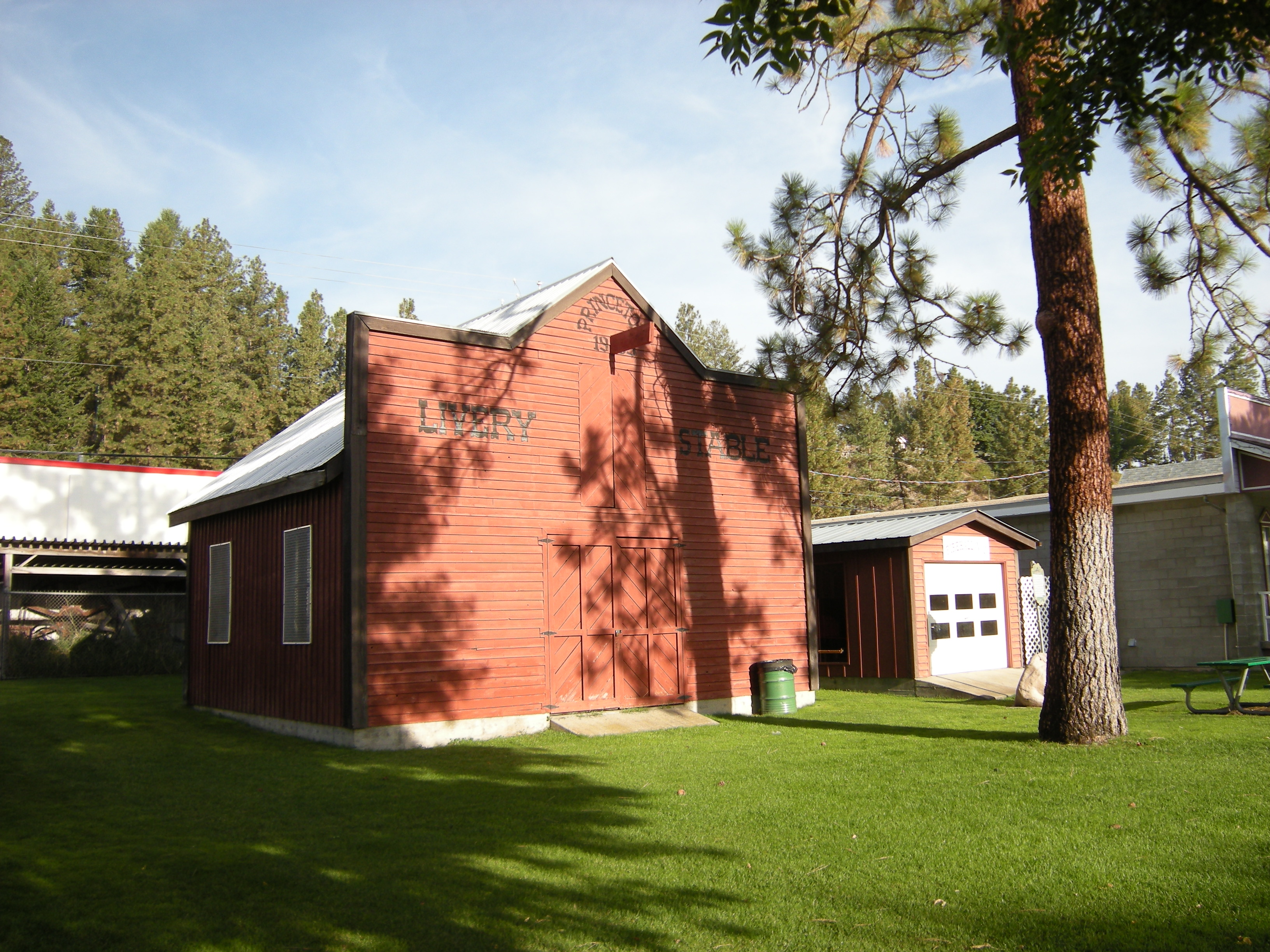 Replica livery stable and 1934 firehouse, Princeton Museum and Okanagan Regional Archive, Vermilion Avenue, Princeton, British Columbia.